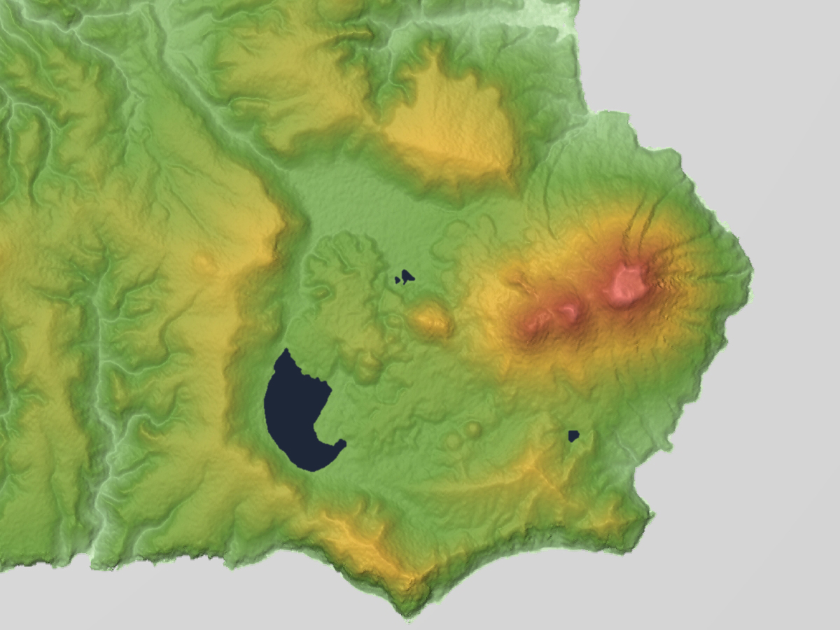 Medvezhia Caldera in Iturup, Kuril Islands, Russia. Also known as Moyoro Caldera in Japan.